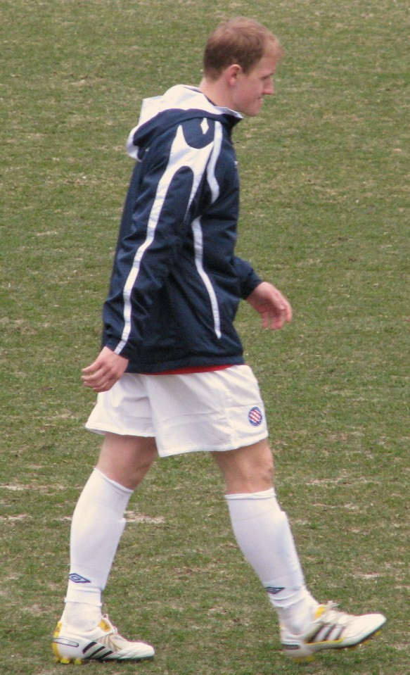 Senijad Ibričić